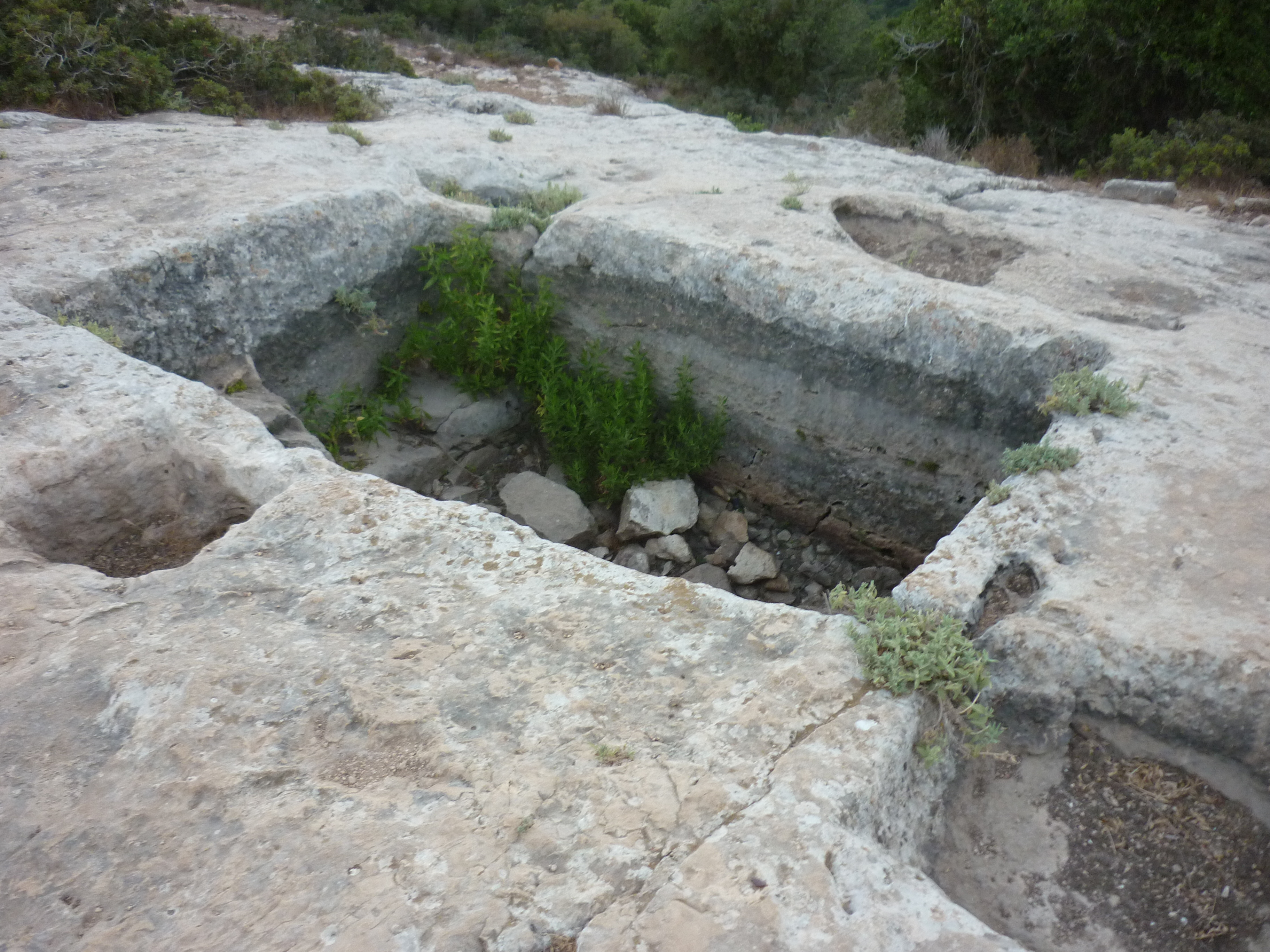 Taken in Hirbat Sumek